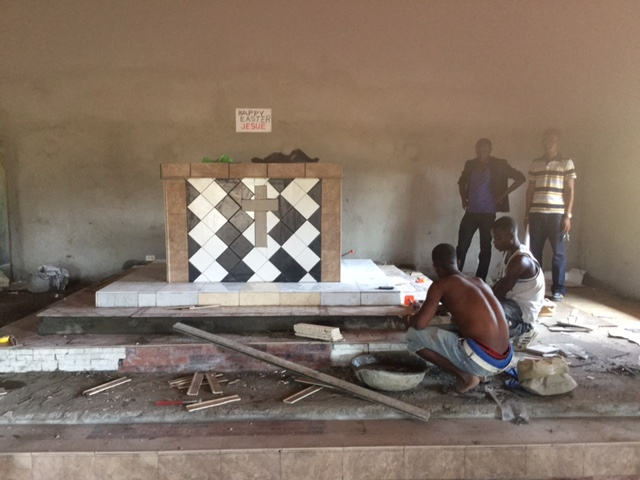 Donated materials being installed by International Children's Fund Workers